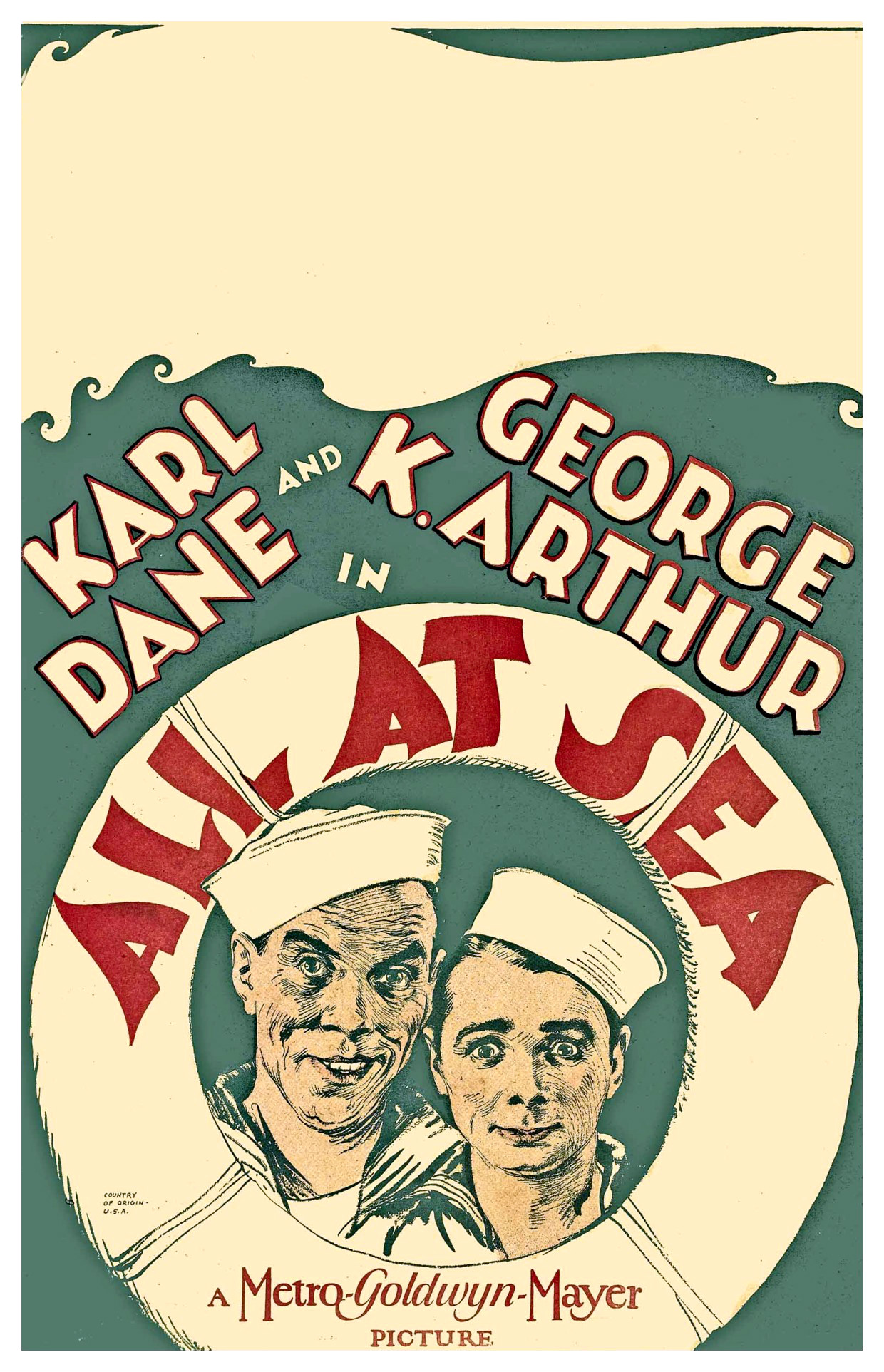 Poster for the American film All at Sea (1929) with Karl Dane and George K. Arthur.